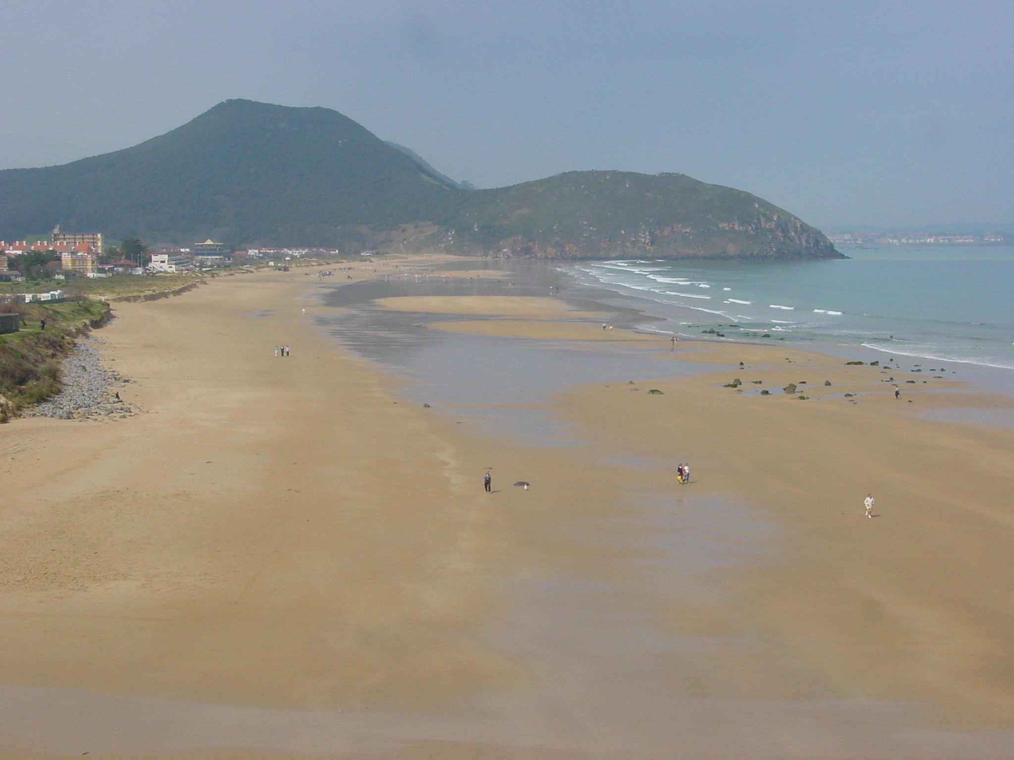 Santoña (Cantabria). View of the Berria beach from the site of the Rouget battery. All the sandy location is within sight.